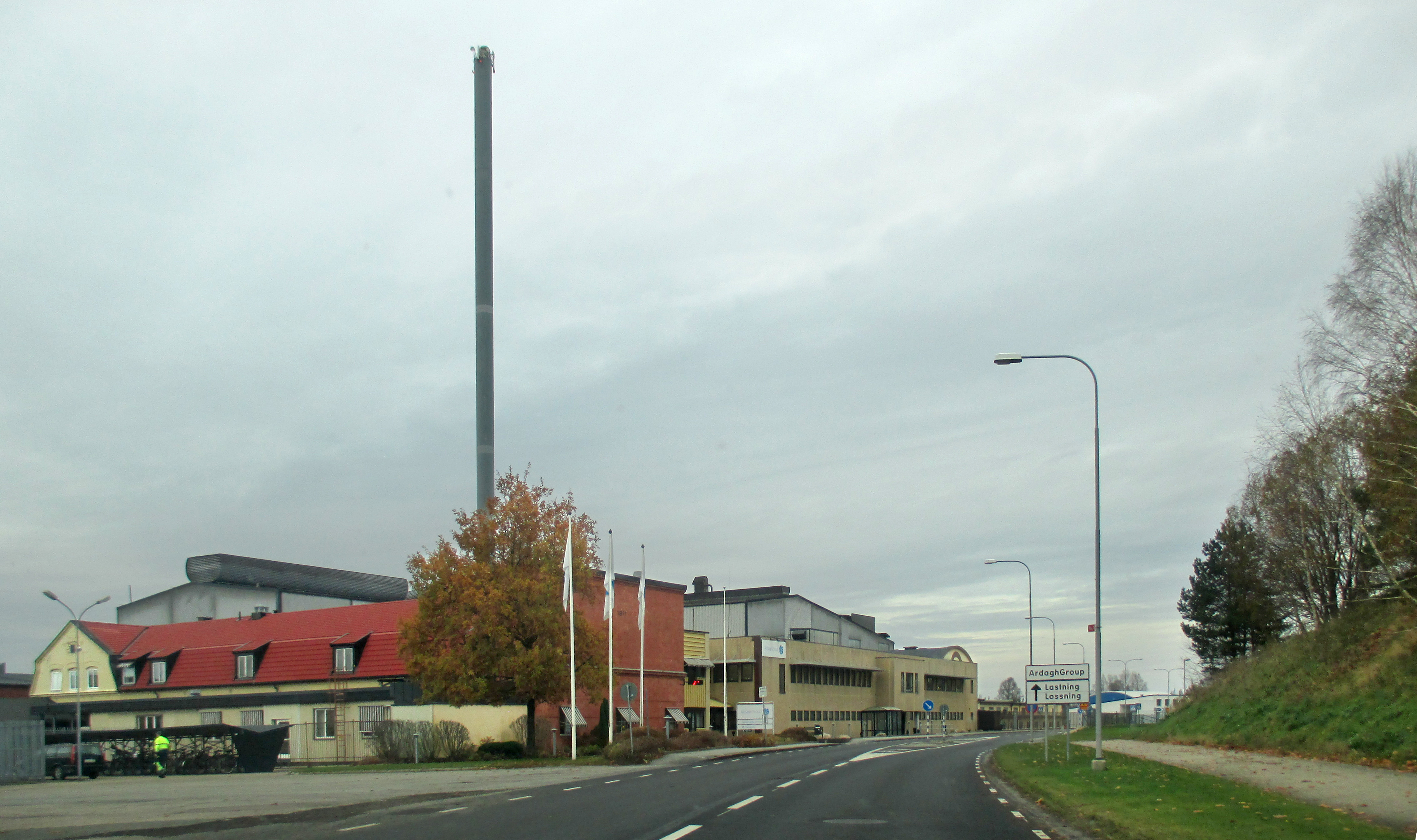 Ardagh Glass in Limmared, Tranemo Municipality, Västergötland, Västra Götaland County, Sweden.